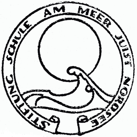 Logo of Stiftung Schule am Meer, Juist Island, North Sea, East Frisia, Prussia, Germany (1924–1934)